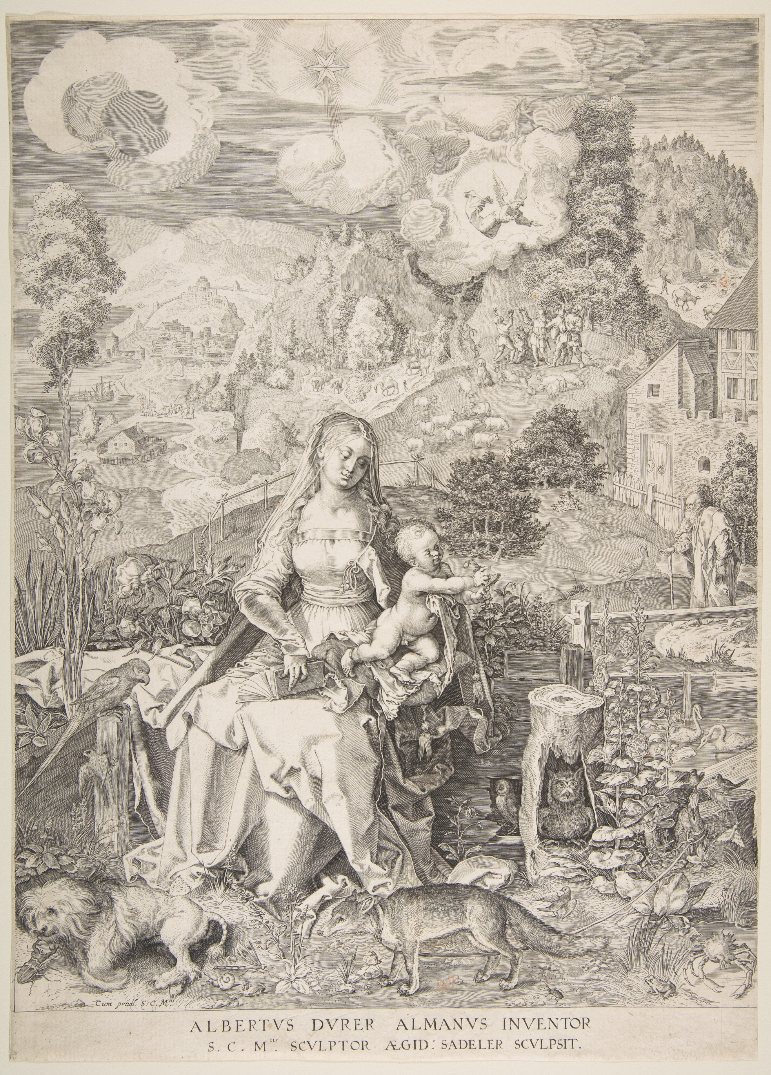 Print; Prints